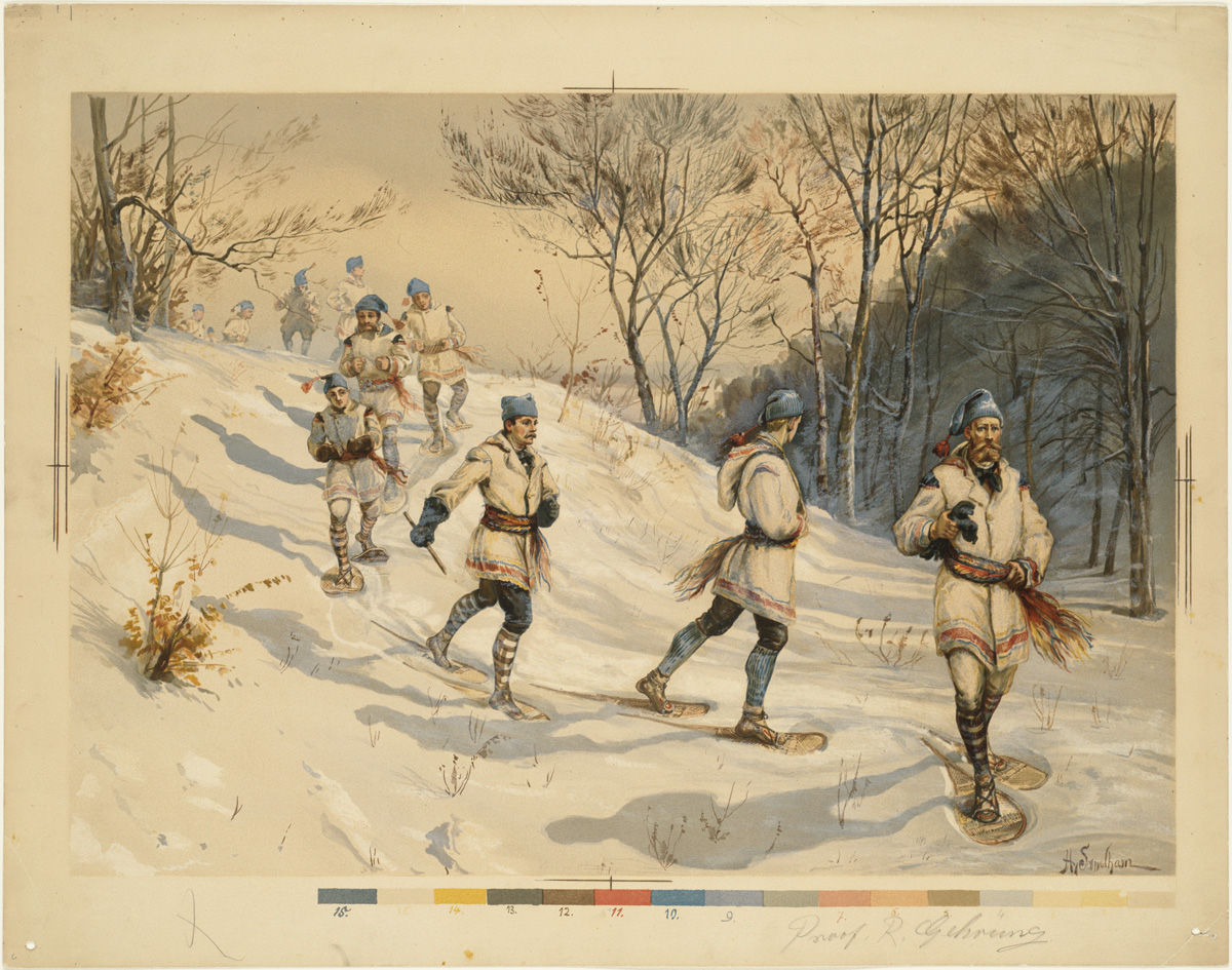 File name: 07_11_001439 Title: Snowshoeing Creator/Contributor: Sandham, Henry, 1842-1910 (artist); L. Prang & Co. (publisher) Date issued: 1861-1897 (approximate) Copyright date: Physical description note: Proof print Genre: Chromolithographs; Genre prints; Proofs Location: Boston Public Library, Print Department Rights: No known restrictions Flickr data on 2011-08-03: Camera: Sinar AG Sinarback 54 FW, Sinar m License: CC BY 2.0 User: Boston Public Library BPL